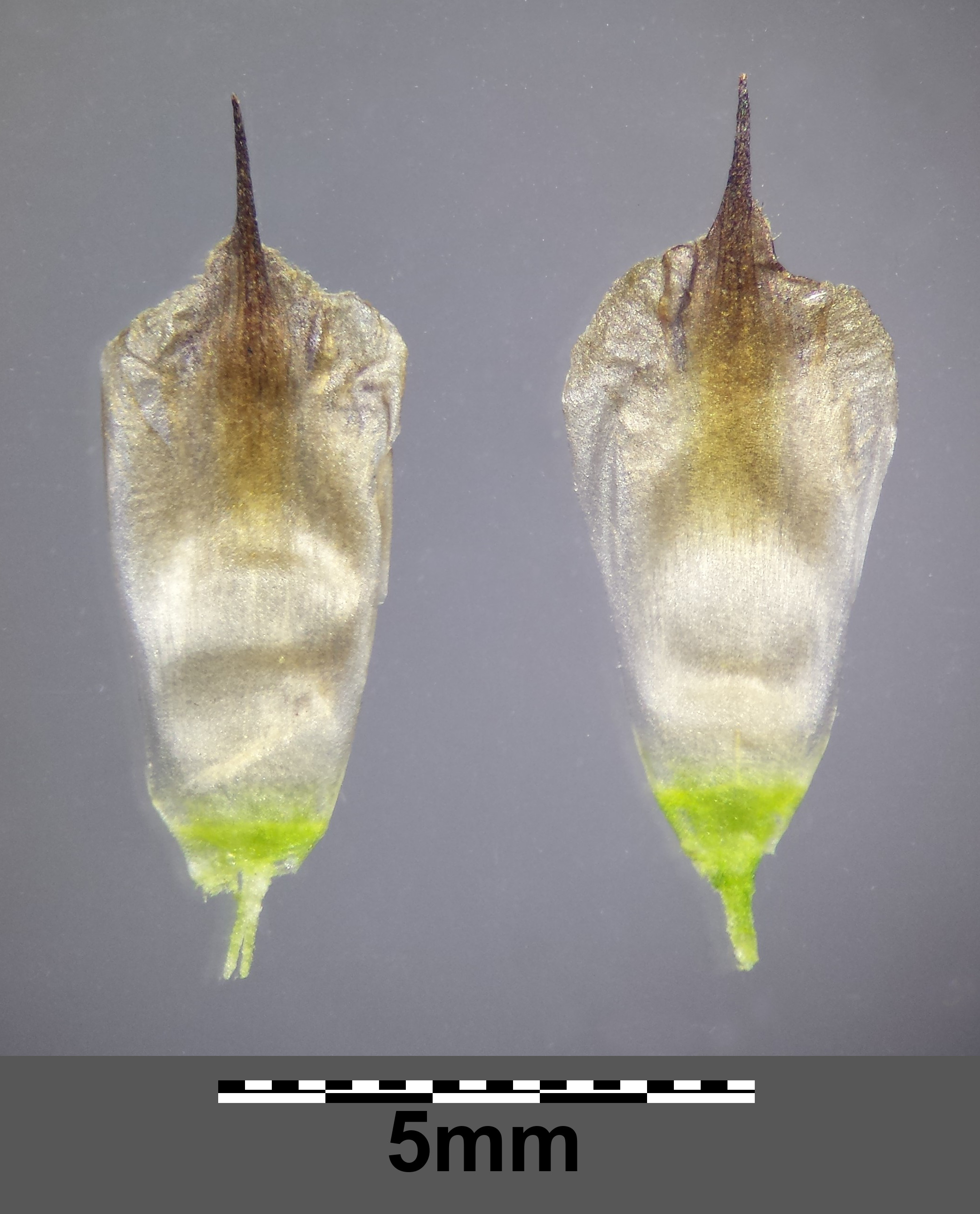 Inner sepals of epicalyx Taxonym: Dianthus carthusianorum ss Fischer et al. EfÖLS 2008 ISBN 978-3-85474-187-9 Location: Umlaufberg near Altenburg, district Horn, Lower Austria - ca. 350 m a.s.l. Habitat: acid dry grassland